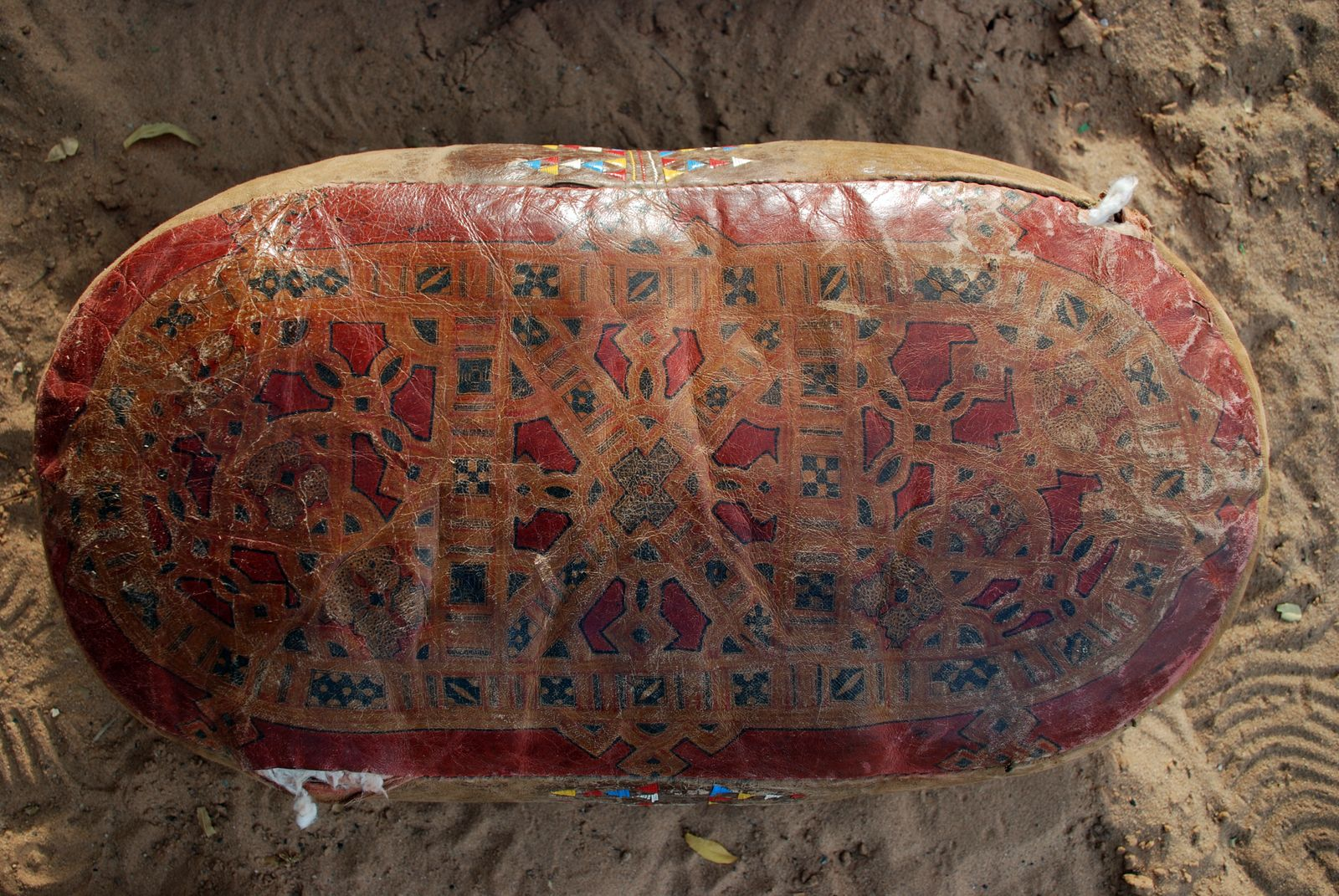 Surmiyee, traditional pillow in Mauritania